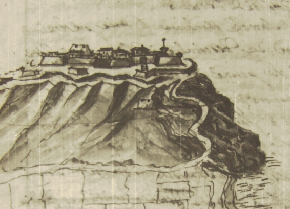 Elba island